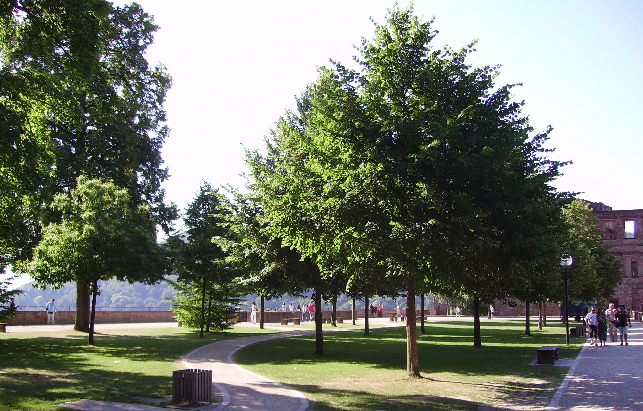 part of Heidelberg castle (Heidelberger Schloss)